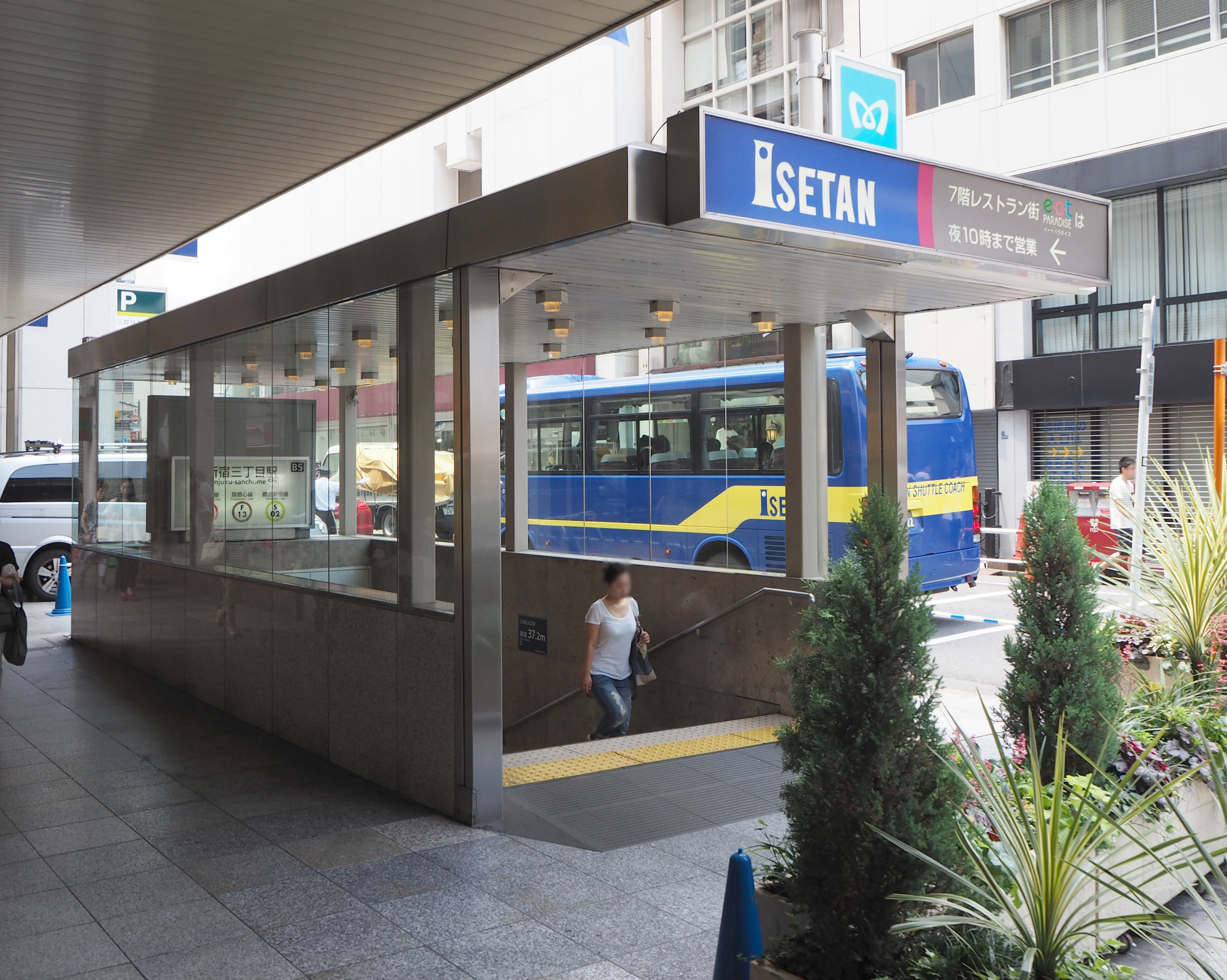 Entrance B5 to Shinjuku-sanchōme Station in Shinjuku, Tokyo